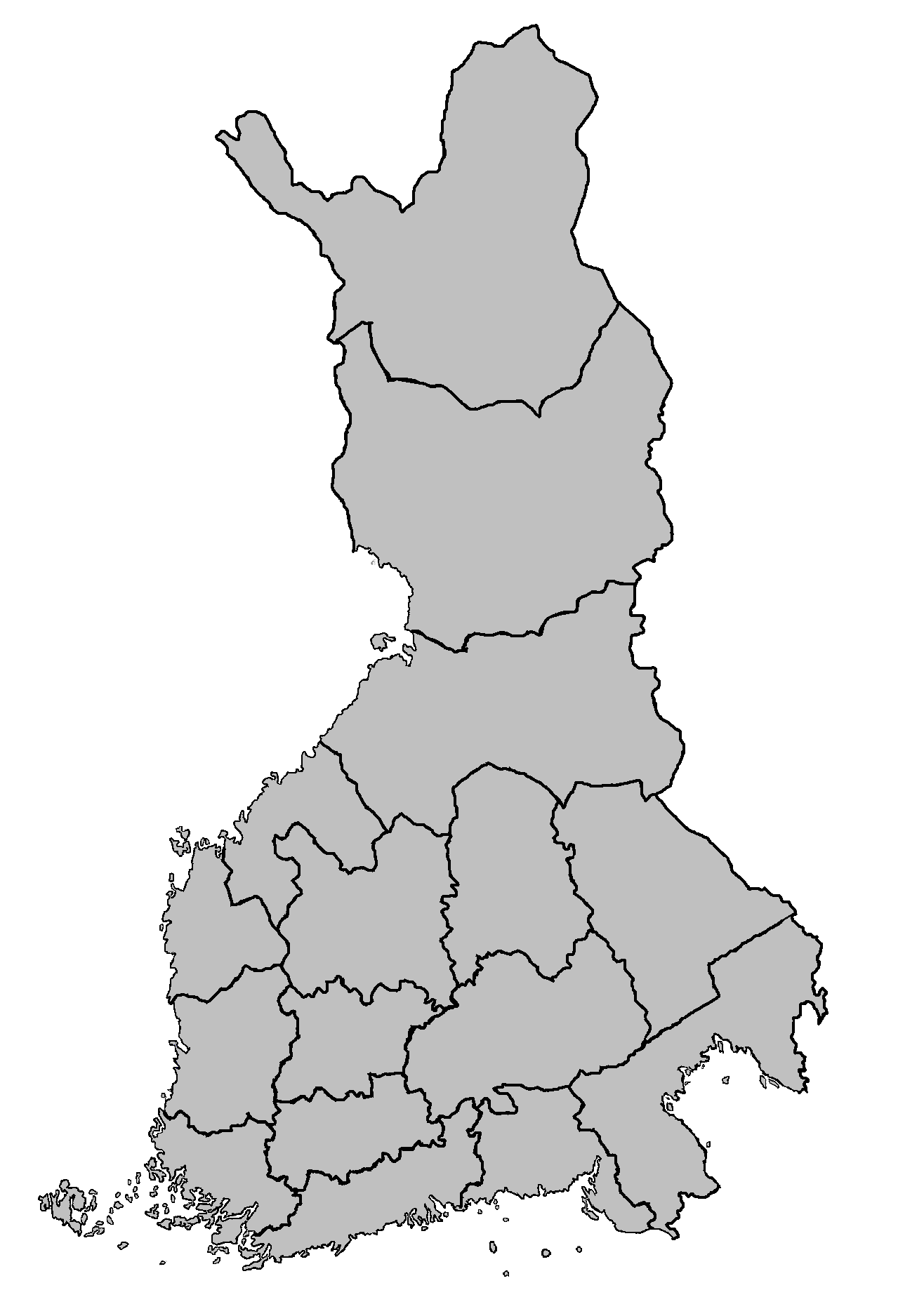 Vaalipiirit 1907